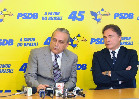 President of PSDB Sérgio Guerra and senator Álvaro Dias